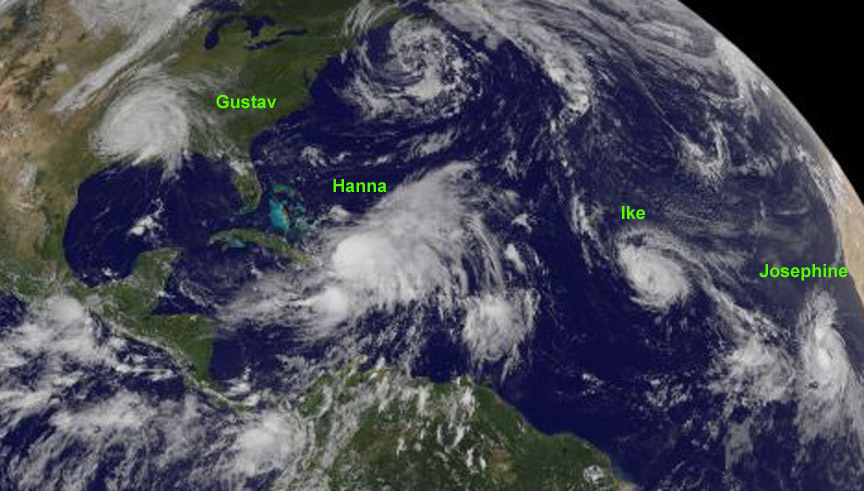 This GOES satellite image from September 2 shows Gustav (over Texas), Hanna (in the Bahamas), Ike and Josephine (both over open water). Credit: NASA/NOAA GOES Project